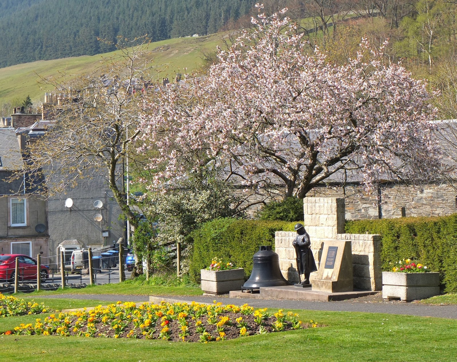 War memorial and blossom, Walkerburn